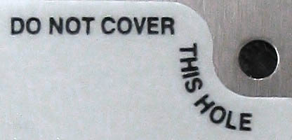 breather hole of Samsung MP0804H hard disk